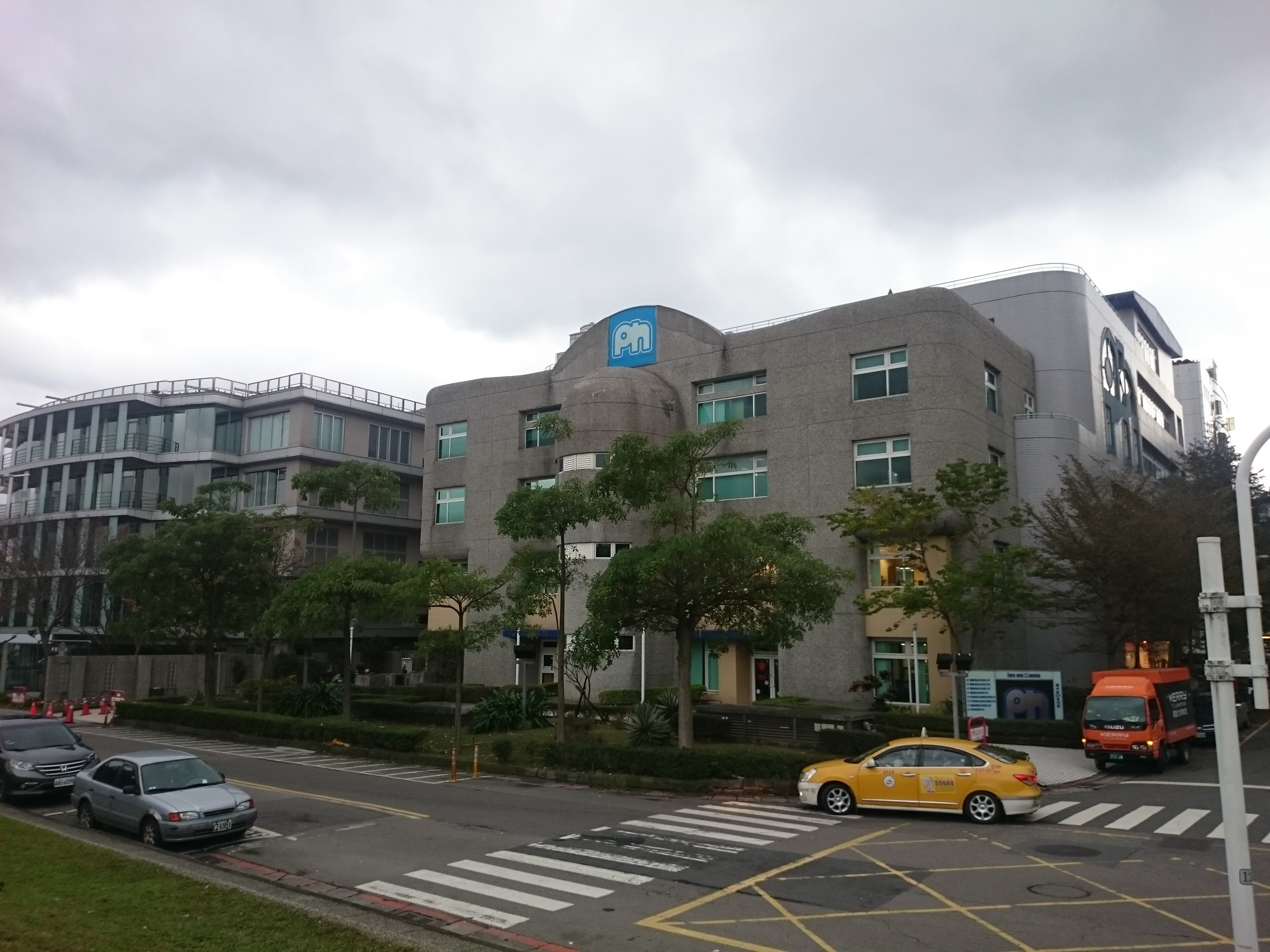 Taiwanese company Les enphants Co., Ltd. Headquarter Office, photo taken on Feb 5, 2016.